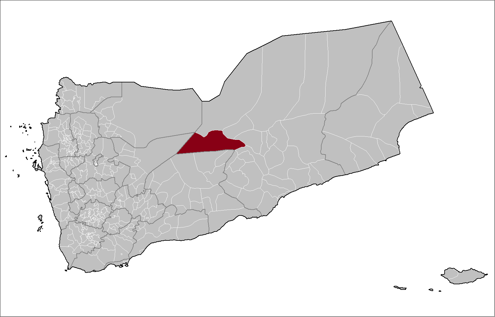 District locator of Al Abr District in Hadhramaut Governorate, Yemen.